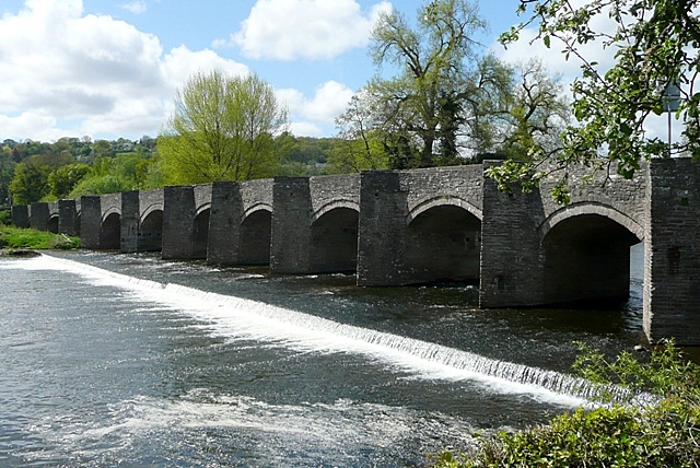 Crickhowell Bridge This is the bridge over the River Usk. Famously it has 13 arches one side and 12 the other. This is the downstream side, which must be the side with 13, otherwise water flowing through an upstream 13th arch would have nowhere to go.